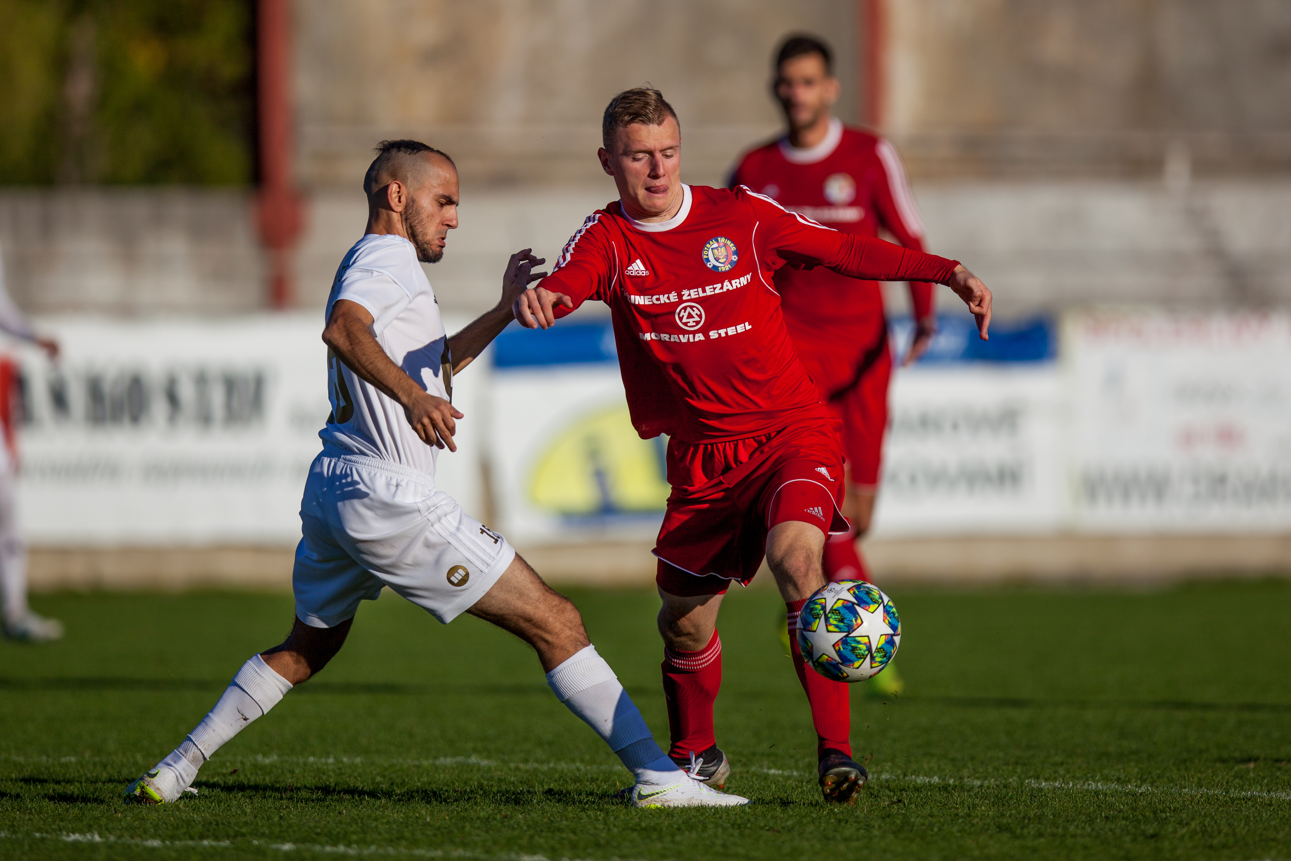 Moravian-Silesian Division F match between SK Dětmarovice and FK Třinec B 12 October 2019 in Dětmarovice, Karviná District, Moravian-Silesian Region, Czechia